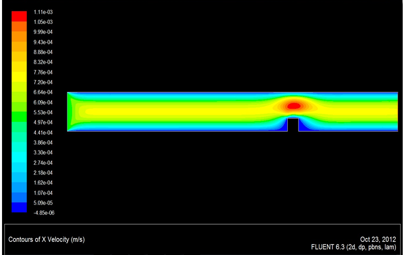 mohit fluent 2